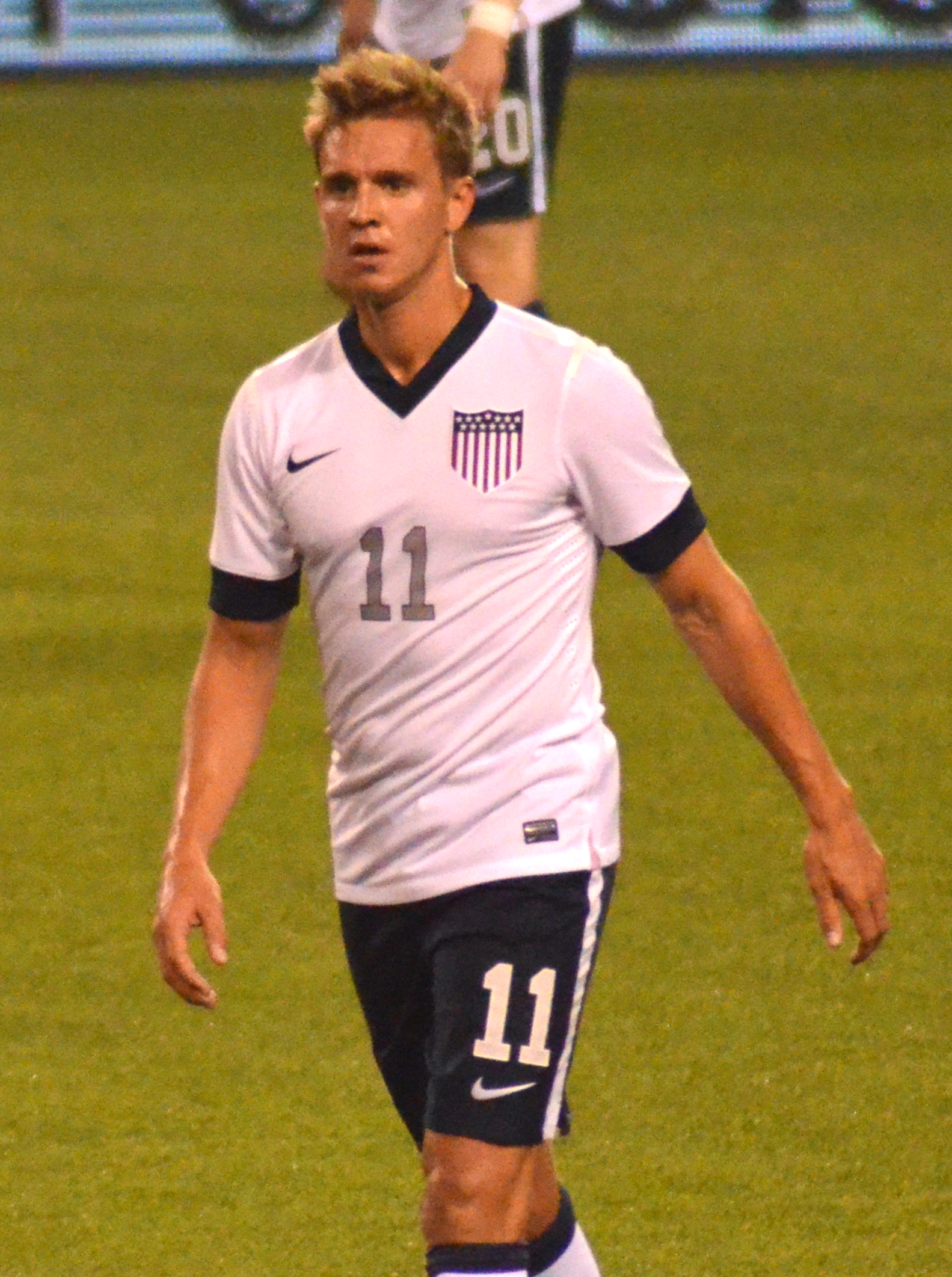 FirstEnergy Stadium Home of the Cleveland Browns